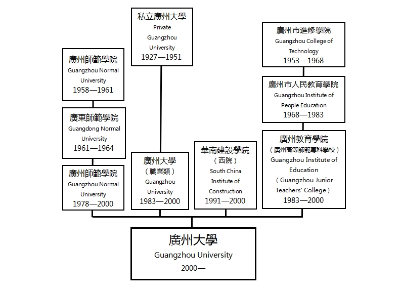 University History